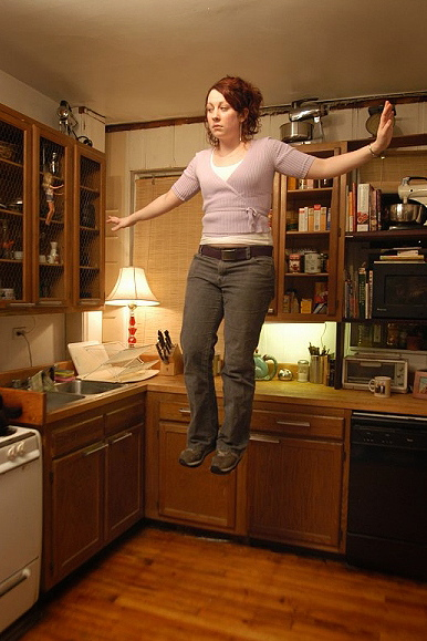 Repulsed by the earth